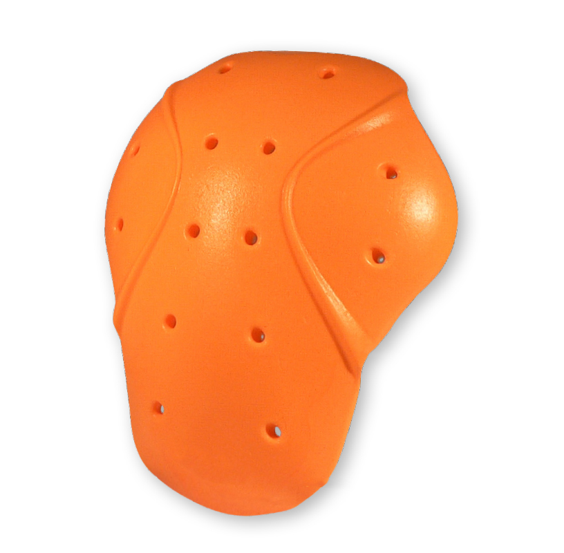 An example of d3o's protection